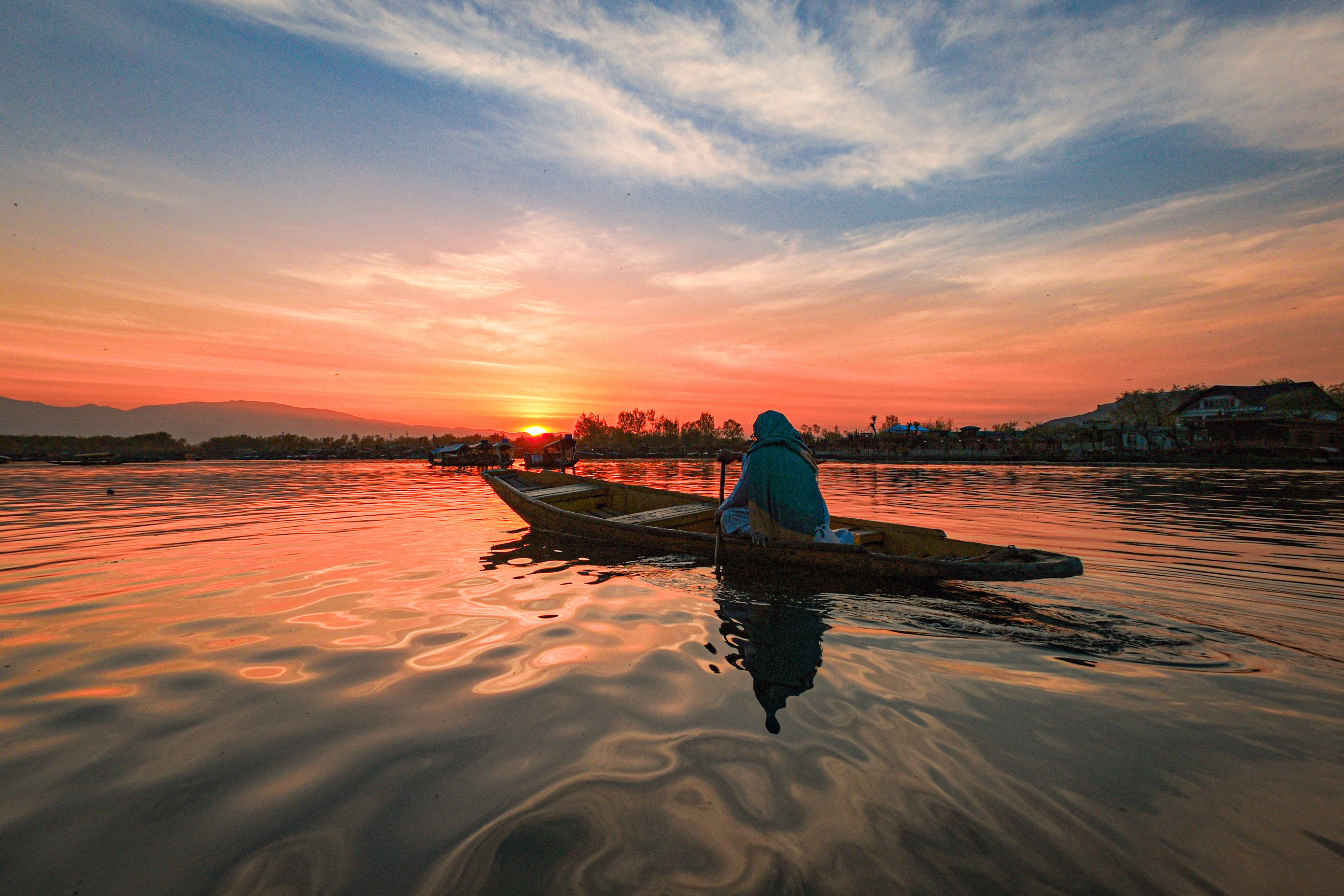 Dal lake during a beautiful sunset